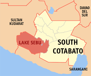 Map of the South Cotabato showing the location of Lake Sebu